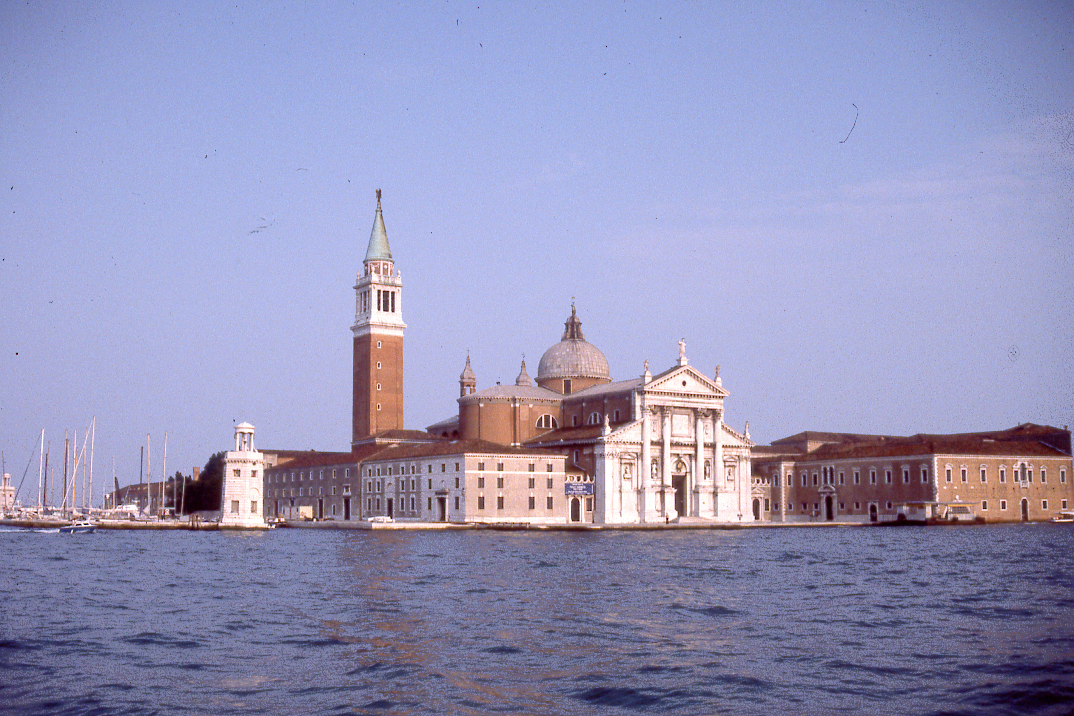 Palladio's church of San Giorgio Maggiore in Venice seen from a boat on the lagoon